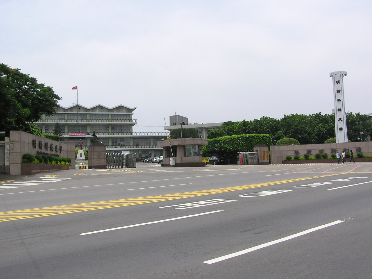 The front entrance of the Ming Hsin University of Science and Technology. Taken on Jun 10, 2004 by Davie.